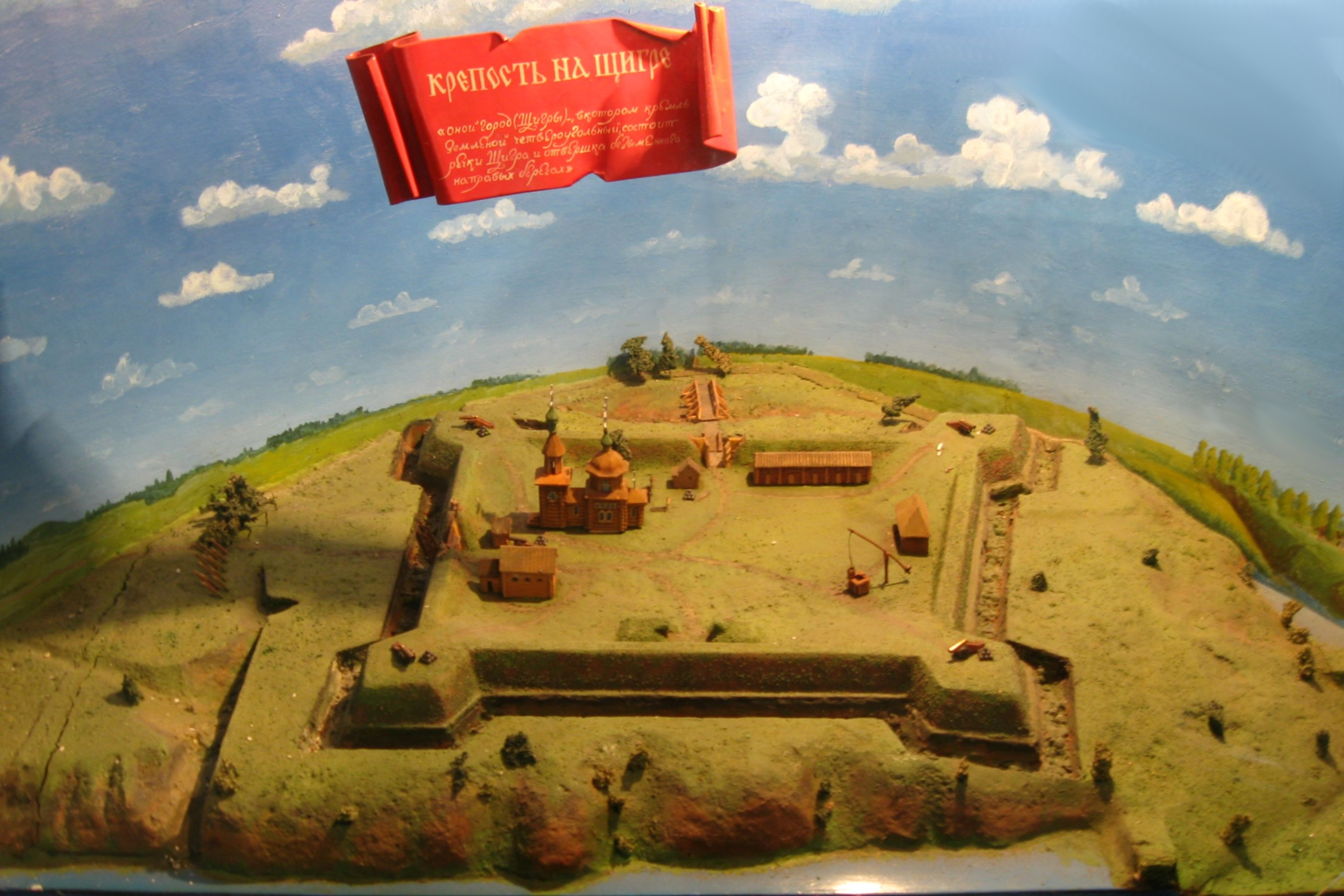 Model of fortress at the Shchigor River. Made by Shchigry Local History Museum specialists.